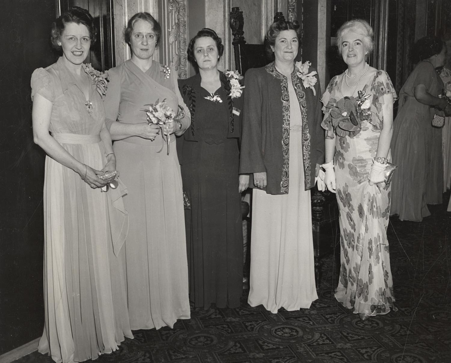 From archives: "English professor Helen C. White in an AAUW officer group photo. From left to right, Mrs. E.E. Storkan, regional vice president AAUW; Dr. Helen C. White, national AAUW president; Mrs. Virginia B. Green, Indianapolis president; Dr. Mary C. Turgi, South Bend, indiana; Mrs. R.W. Holmstedt, Indiana state president, Bloomington, Indiana." Local identifier: UW.uwar04882.bib